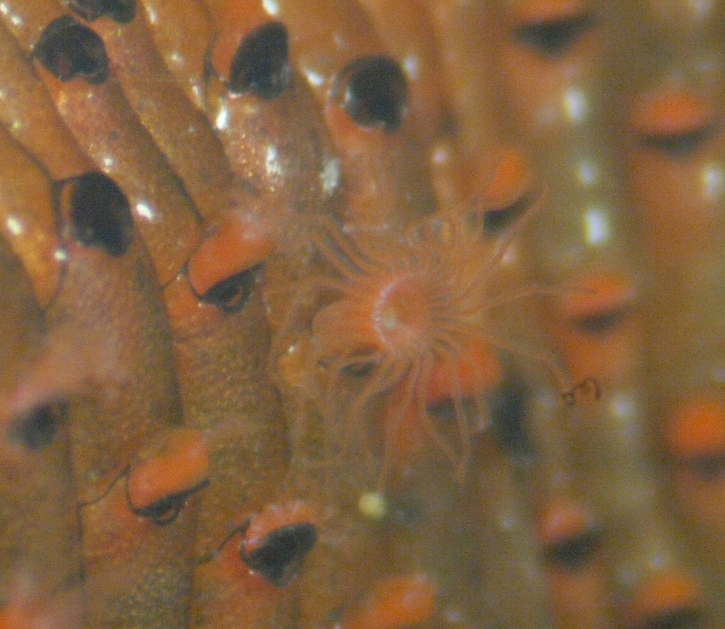 Dakaria_subovoidea(Cheilostomata) Japanese name:Tigokemusi Date;2009,03,29;Tanabe city, Wakayama prefecture, Japan Author;Keisotyo